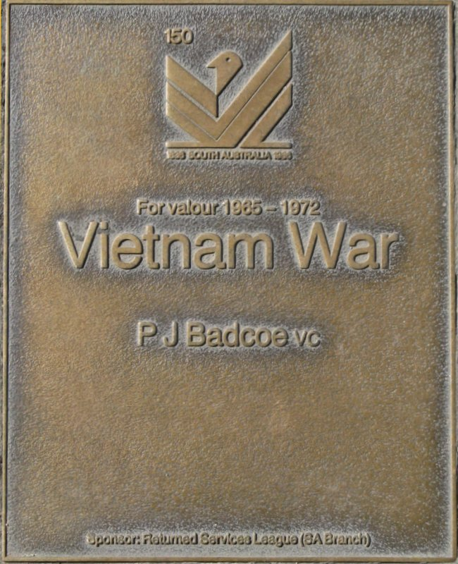 Jubilee 150 Walkway Plaque commemorating Vietnam War heros